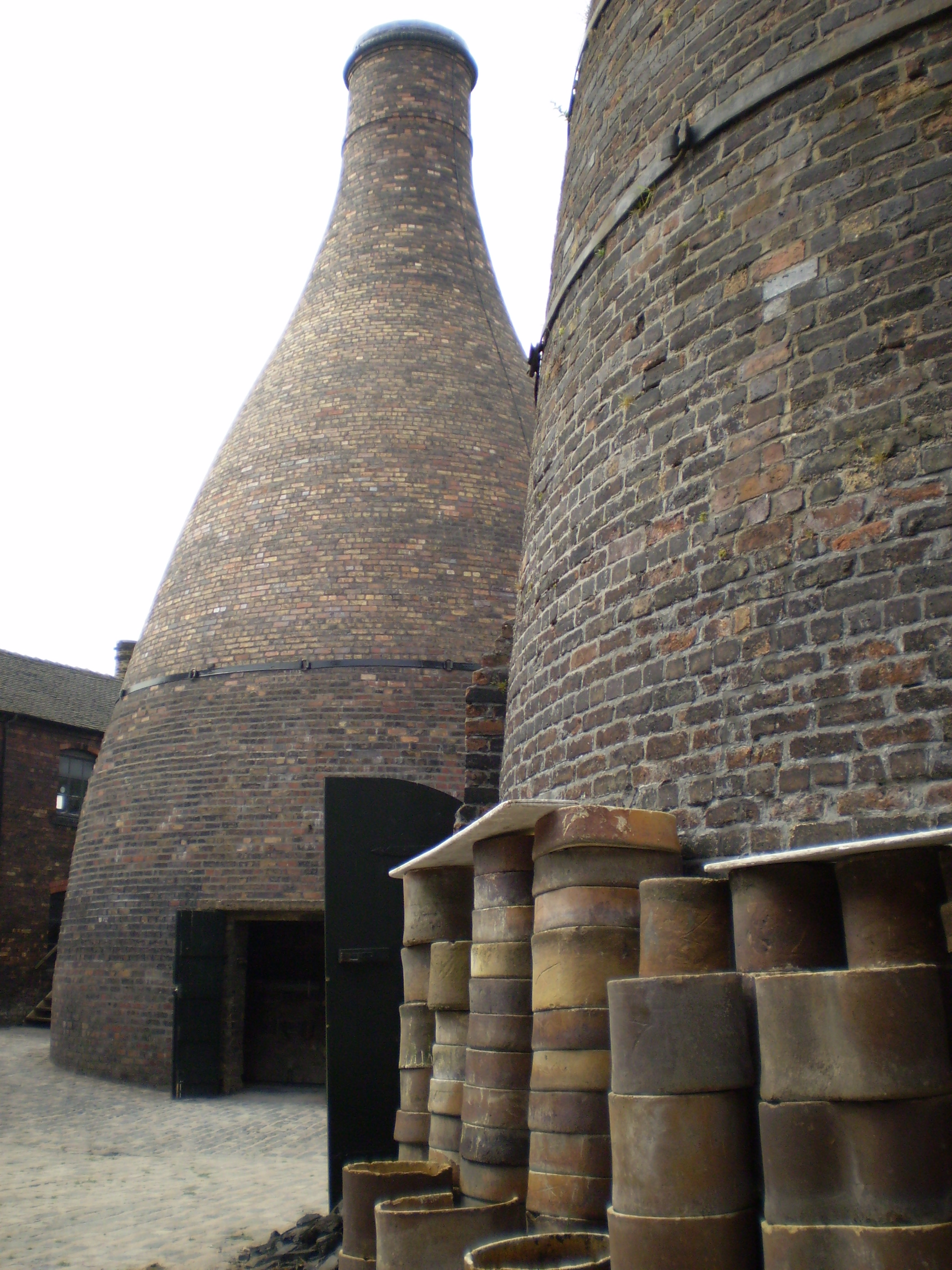 A bottle kiln in Gladstone Pottery Museum, England